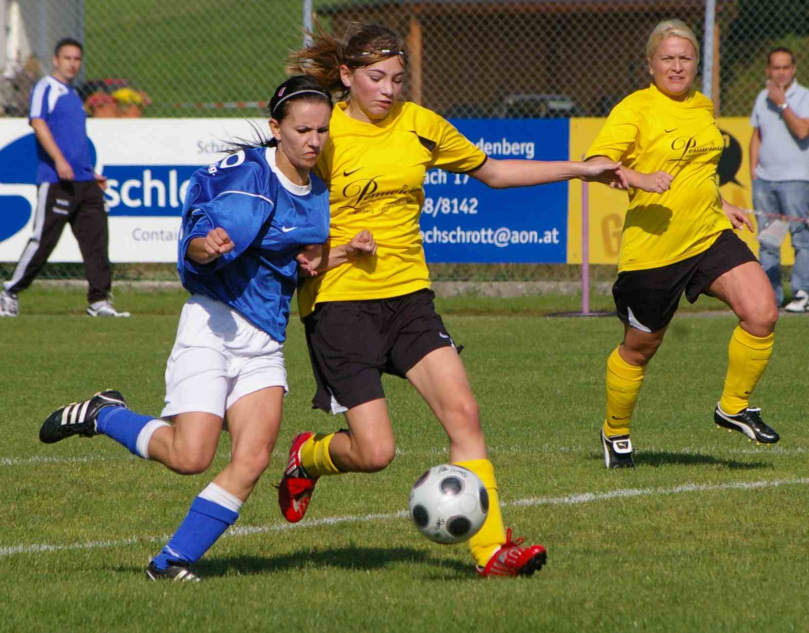 Women´s team Union geretsberg Austria